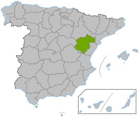 Location of the province of Teruel, in Spain. Basado en: ProvPont.jpg Author: Satesclop Source: Designed by Satesclop. Original picture, designed by Sobreira.